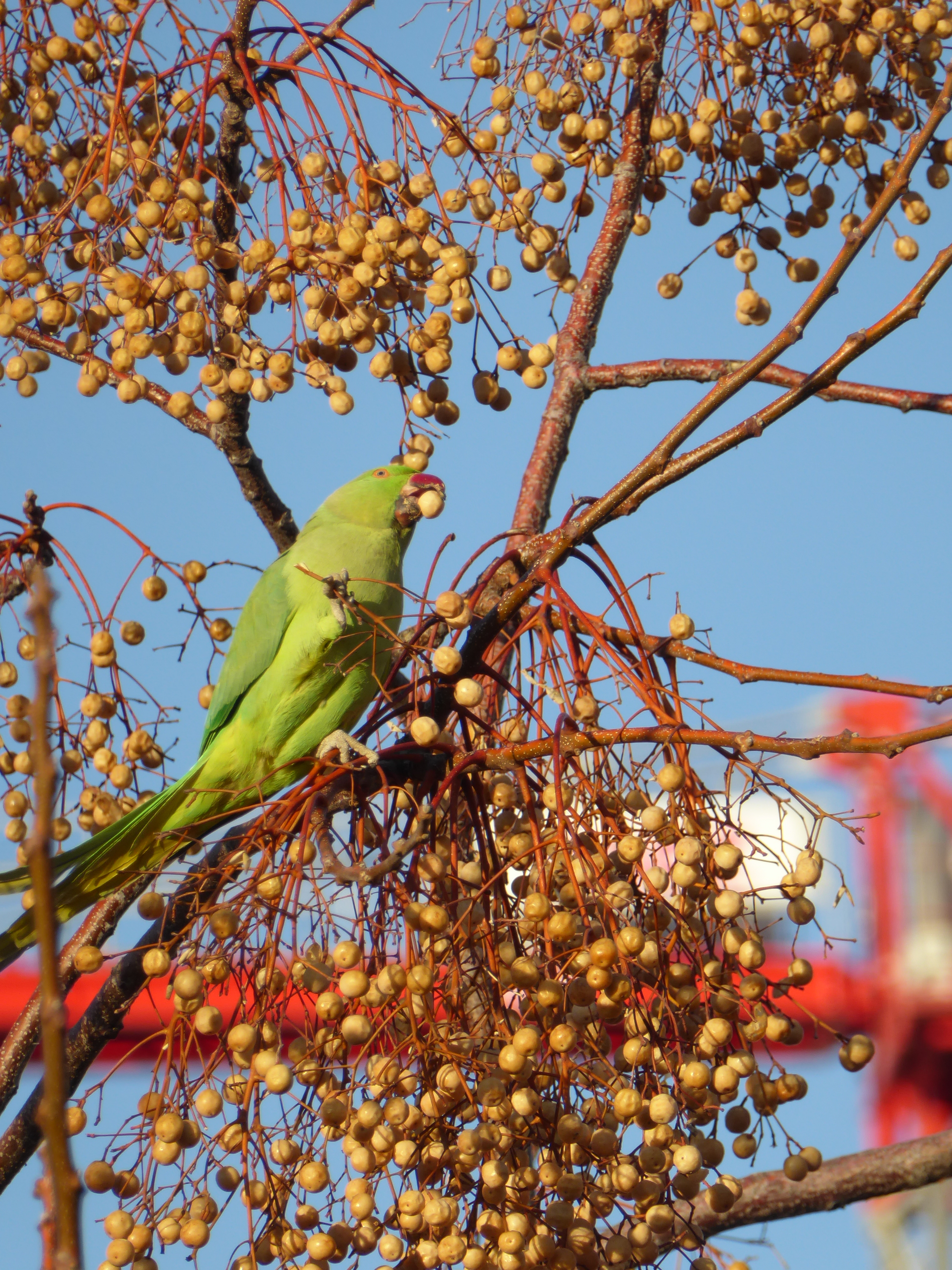 Animals of Israel